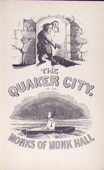 Cover page image of The Quaker City, or The Monks of Monk Hall (1845) by American author George Lippard. Artist is Felix Octavius Carr Darley. From Babylon: City of Sin, U.S.A., an online exhibit at the University of Virginia. Slightly cropped from original scan.